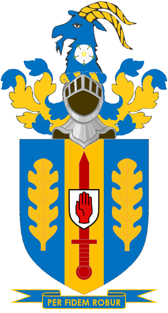 The armorial achievement of the Ackroyd baronets of Dewsbury